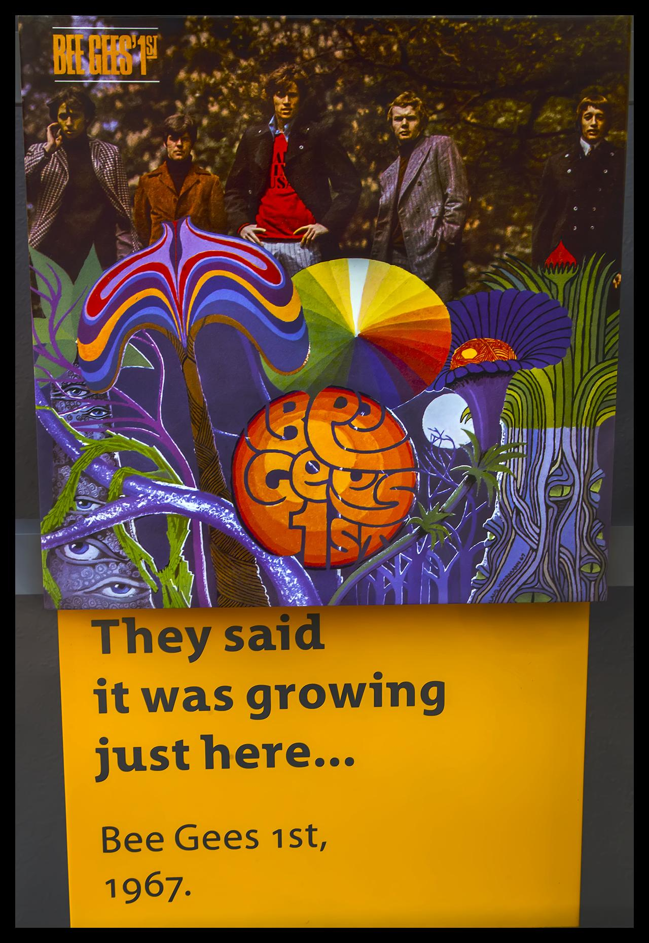 Bee Gees Memorial re-visited